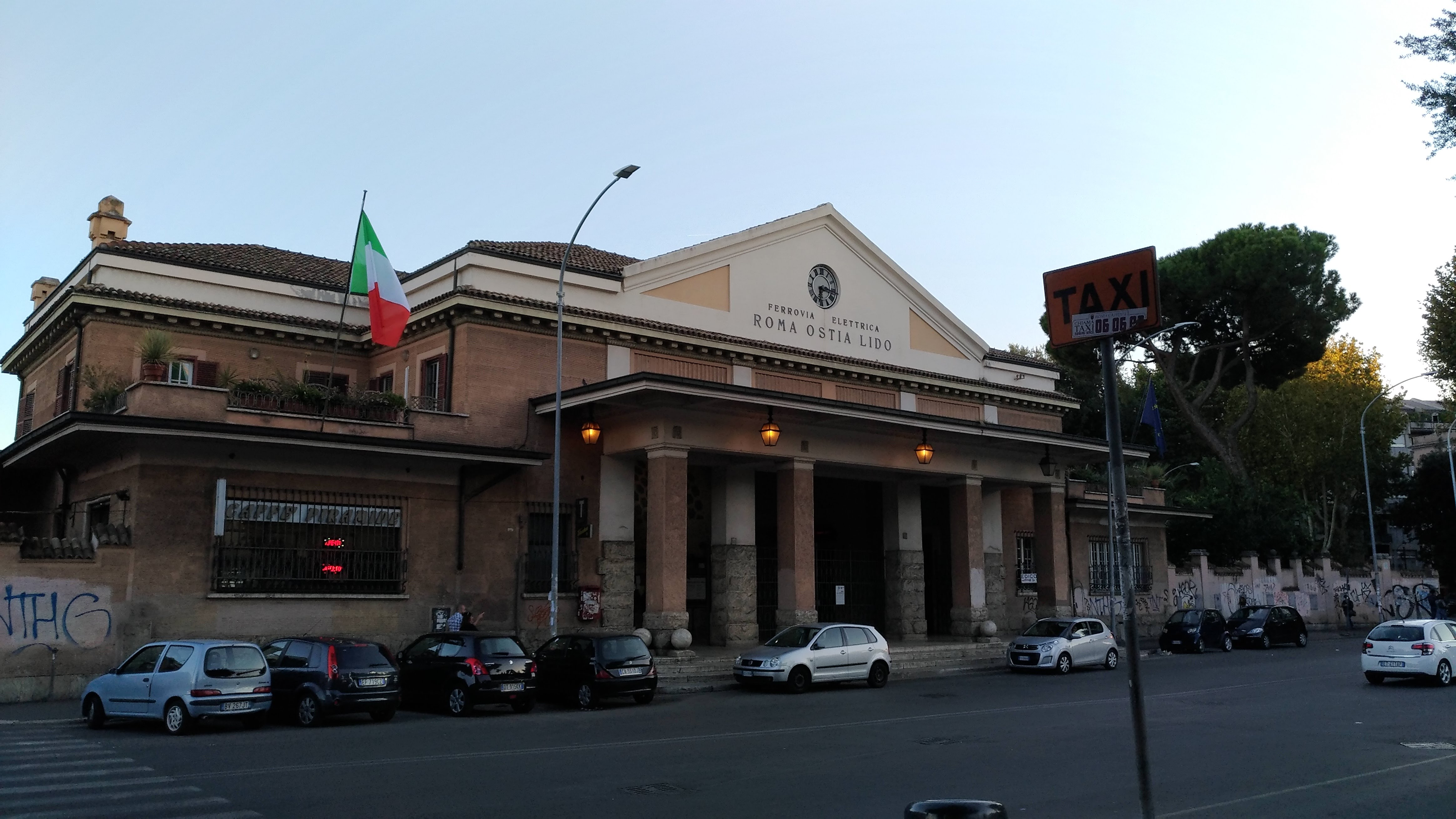 Roma San Paolo Station in Rome